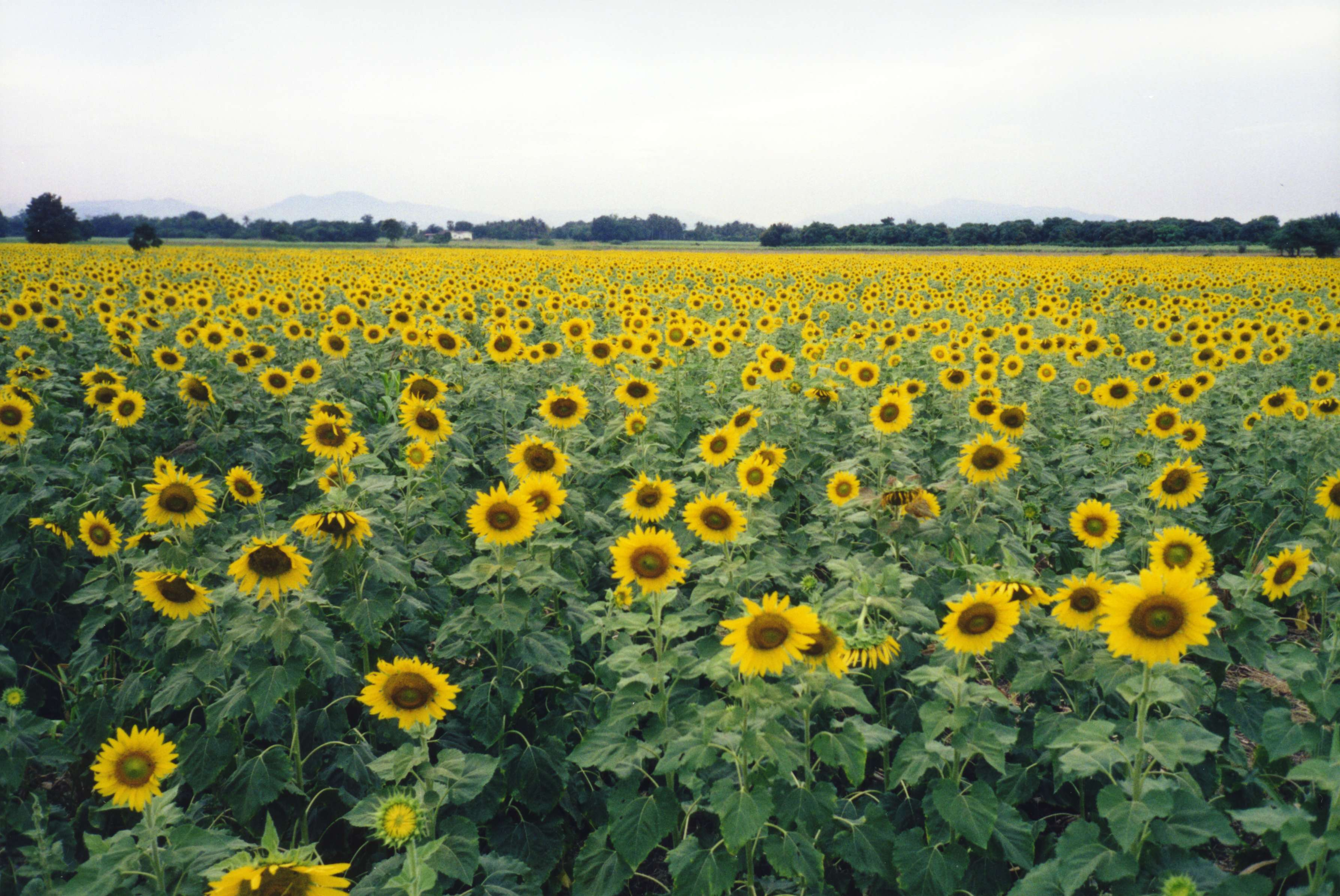 Sunflower fields in Phatthana Nikhom district, Lopburi Province, Thailand. Photo taken in 2002 by User:Ahoerstemeier